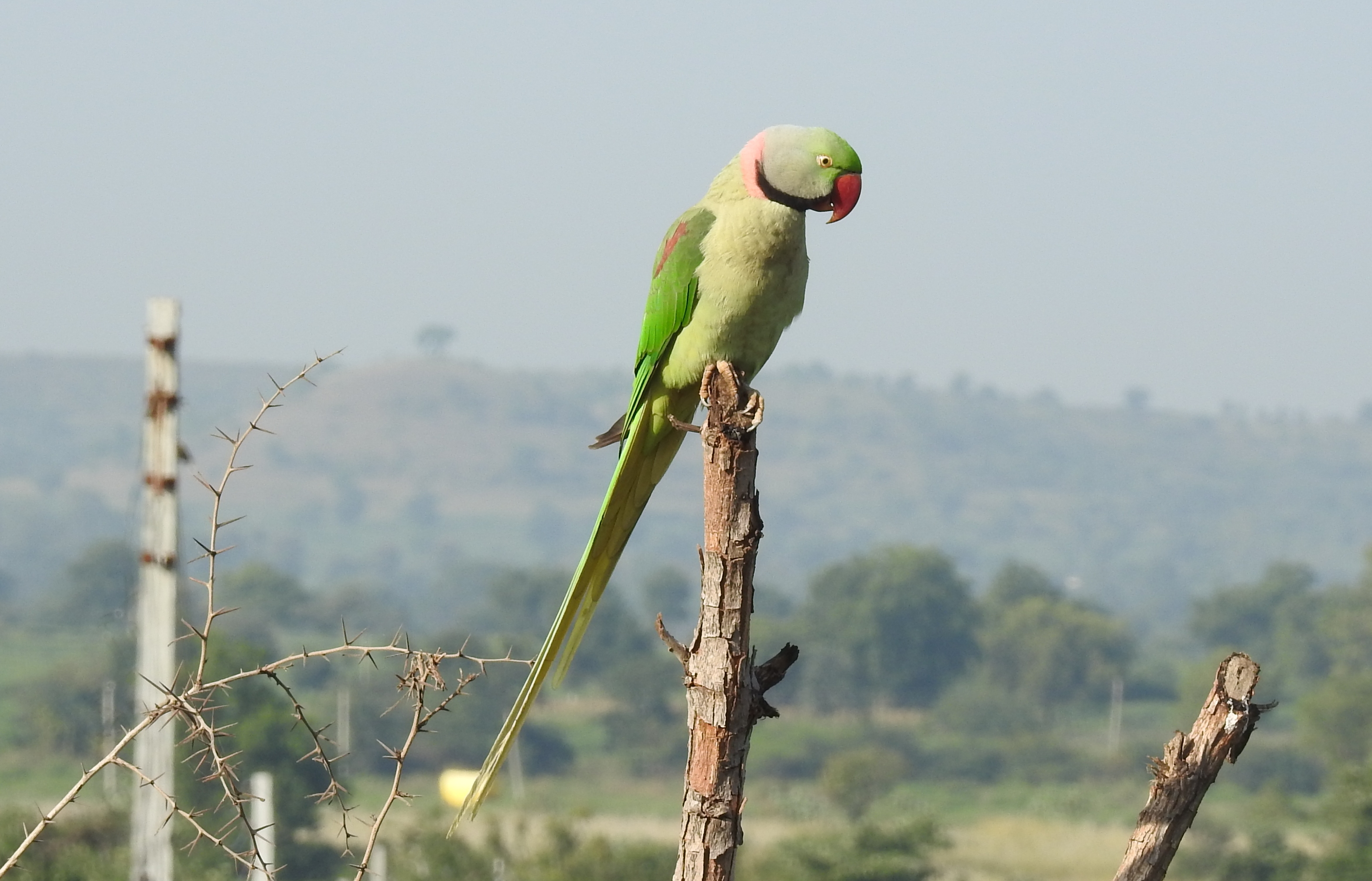 Alexandrine Parakeet Psittacula eupatria. Photographed in Yavatmal district, Maharashtra, India.